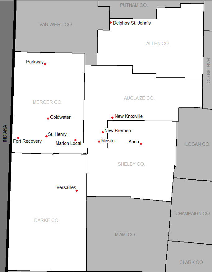 County outlines made by the US Census. I modified the map to show the school locations.